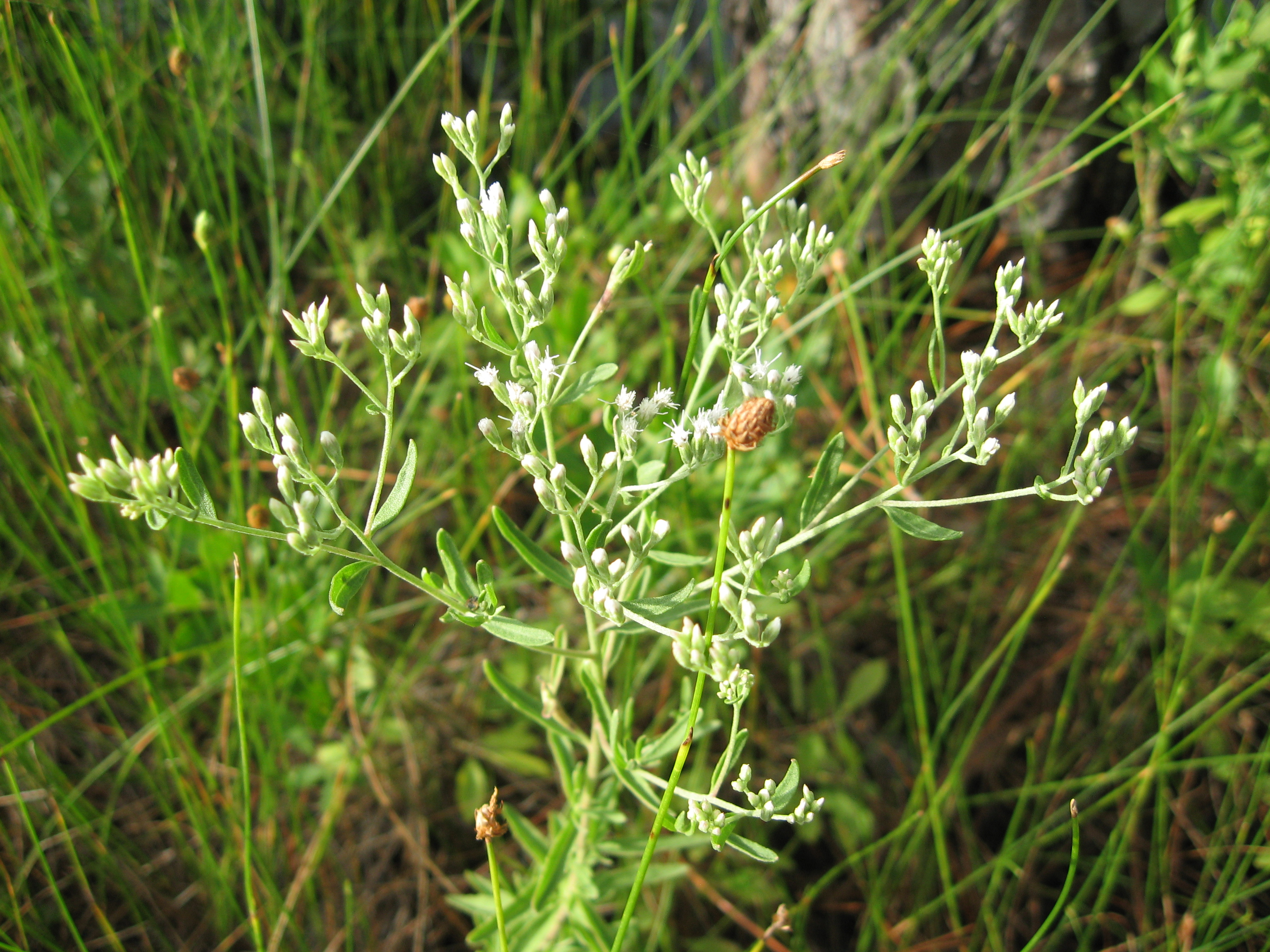 Eupatorium mohrii in marshy area at St. Joseph Peninsula State Park, Gulf County, Florida.